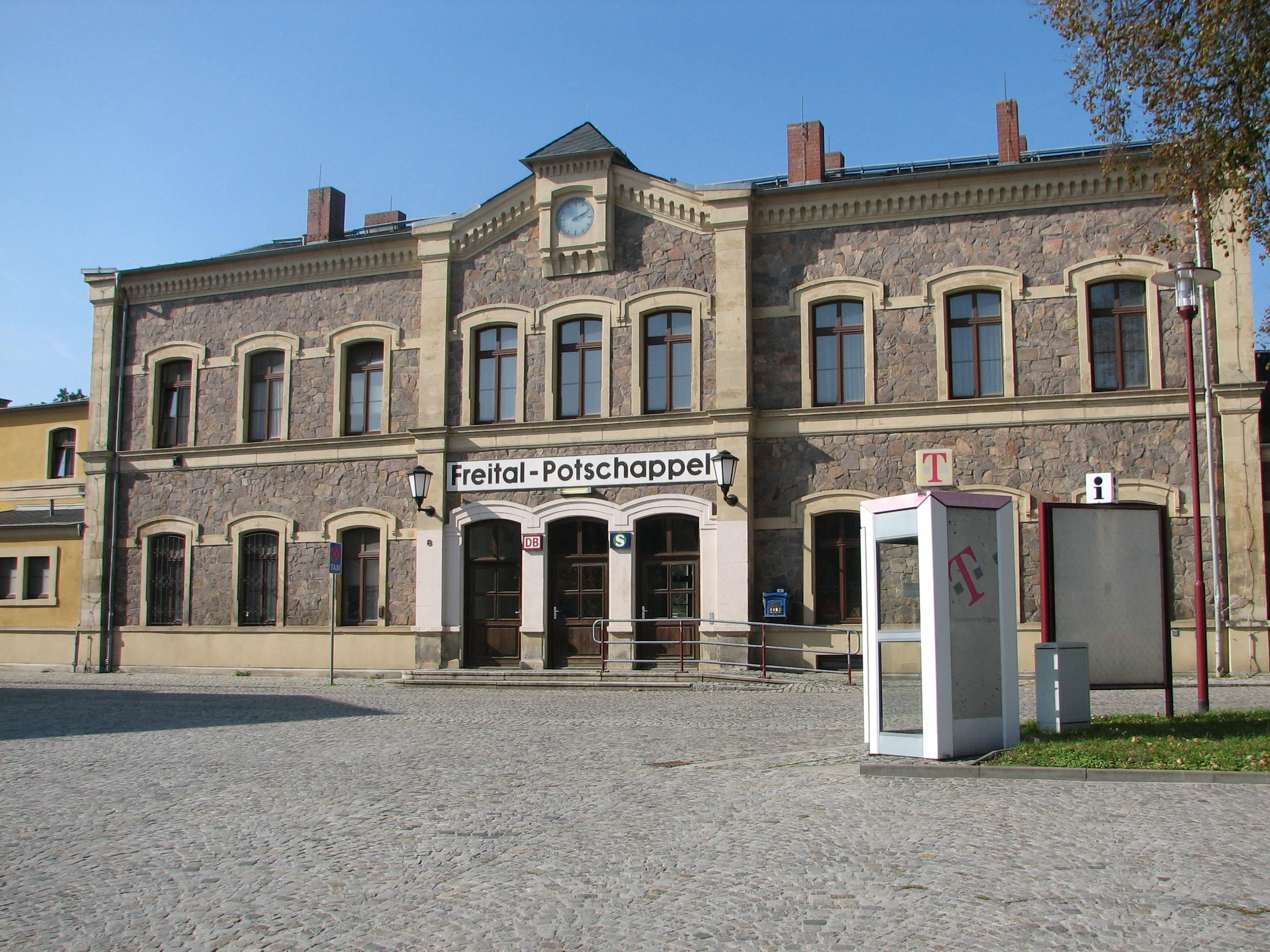 The train station in Freital-Potschappel